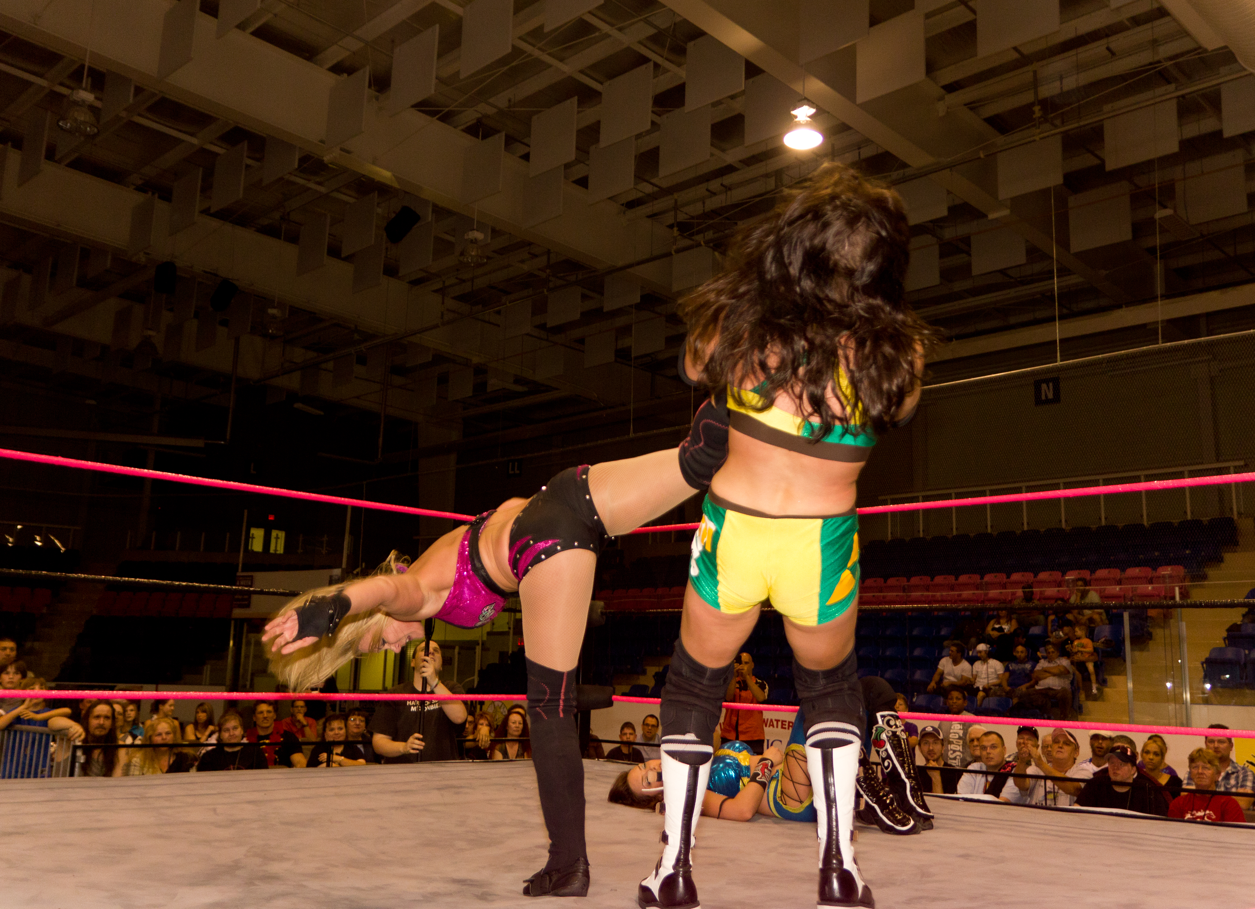 Jennifer Blake (in black and red) hitting a superkick on Courtney Rush (in yellow & green) at an independent wrestling show